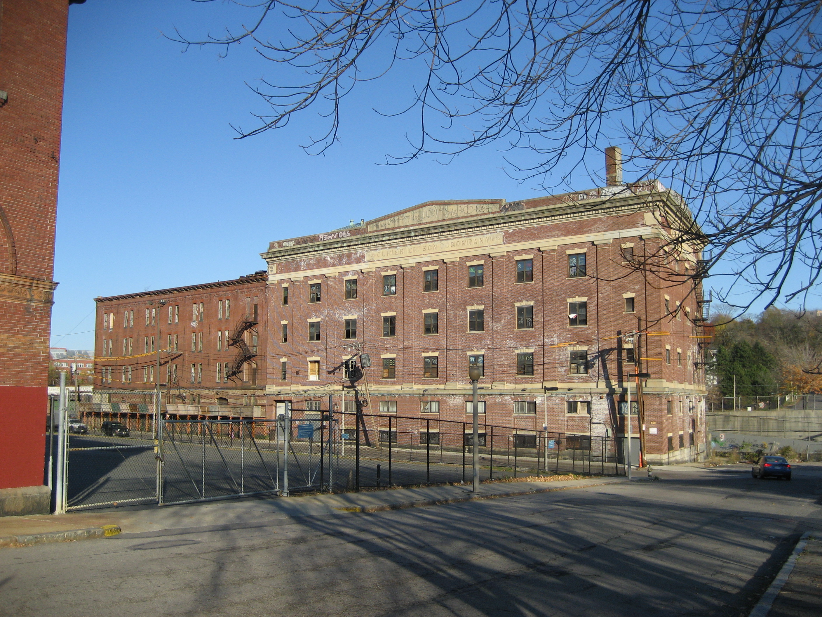 Former Oliver Ditson Company Building in the Roxbury neighborhood of Boston, Massachusetts. This building was also once part of the Highland Spring Brewery Bottling and Storage Buildings.